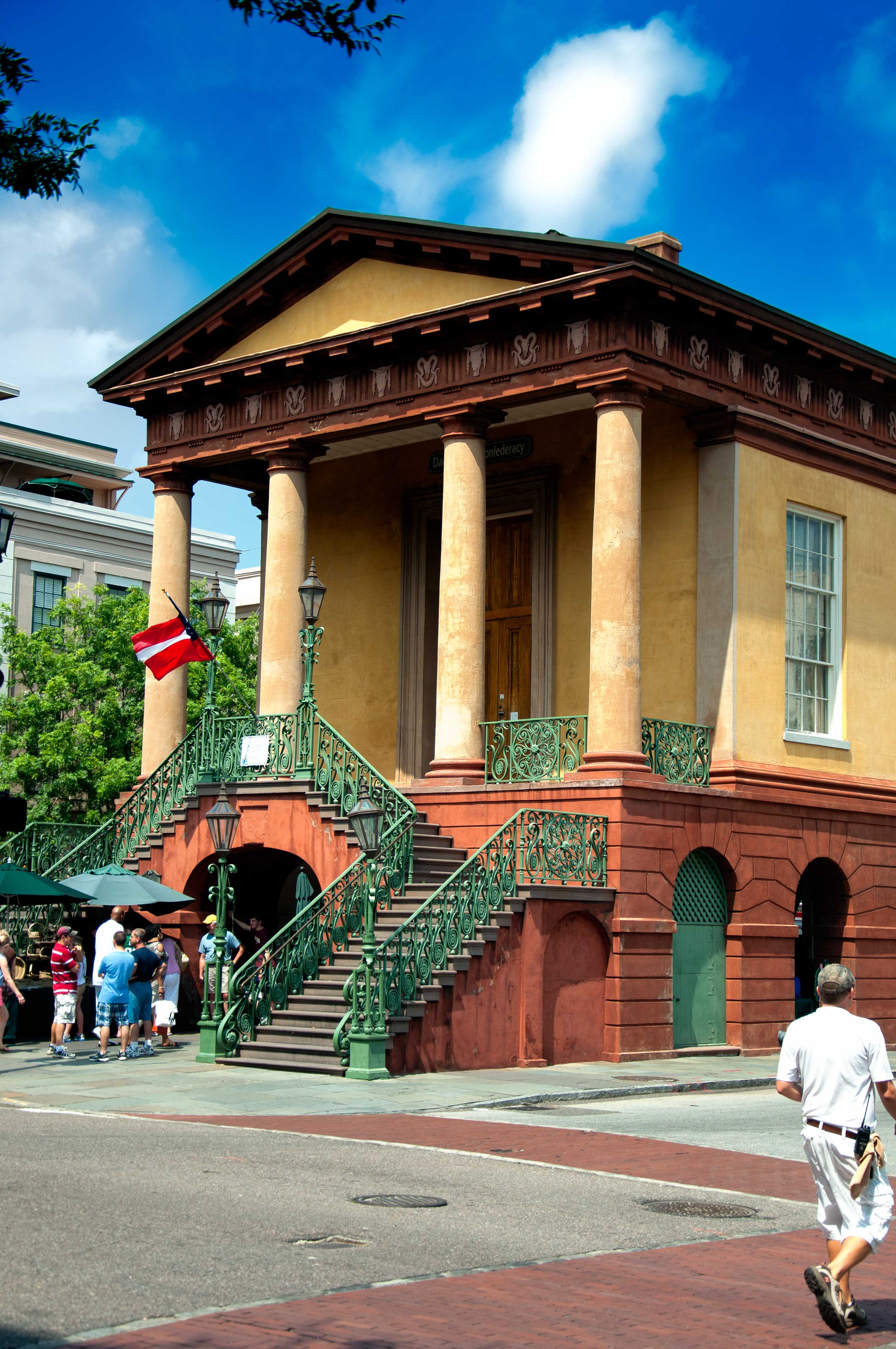 Entrance to the great Charleston Market, as seen from Meeting St